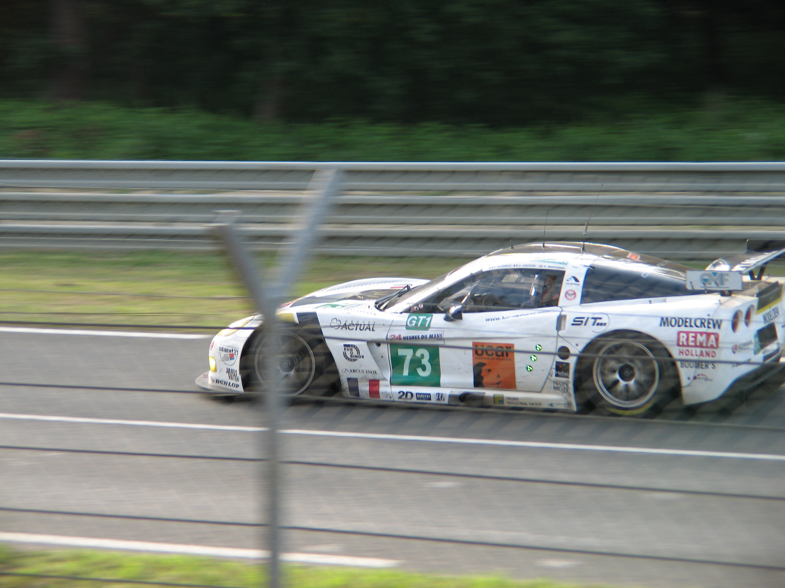 The #73 Luc Alphand Aventures Corvette C6.R approaching Arnage Corner at the 2009 24 Hours of Le Mans.